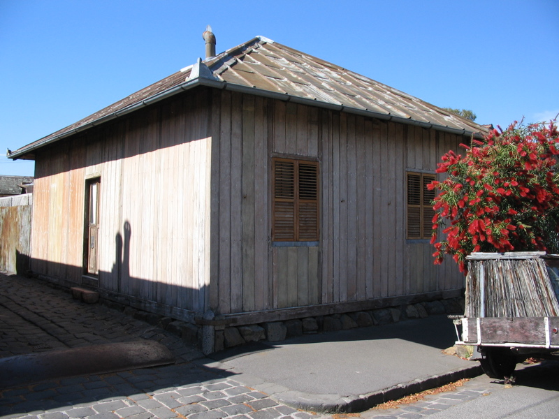 A 'Singapore cottage', located on Sackville Street, Collingwood, Victoria, Australia. These cottages were prefabricated dwellings imported from Singapore during the 1850s gold rush.